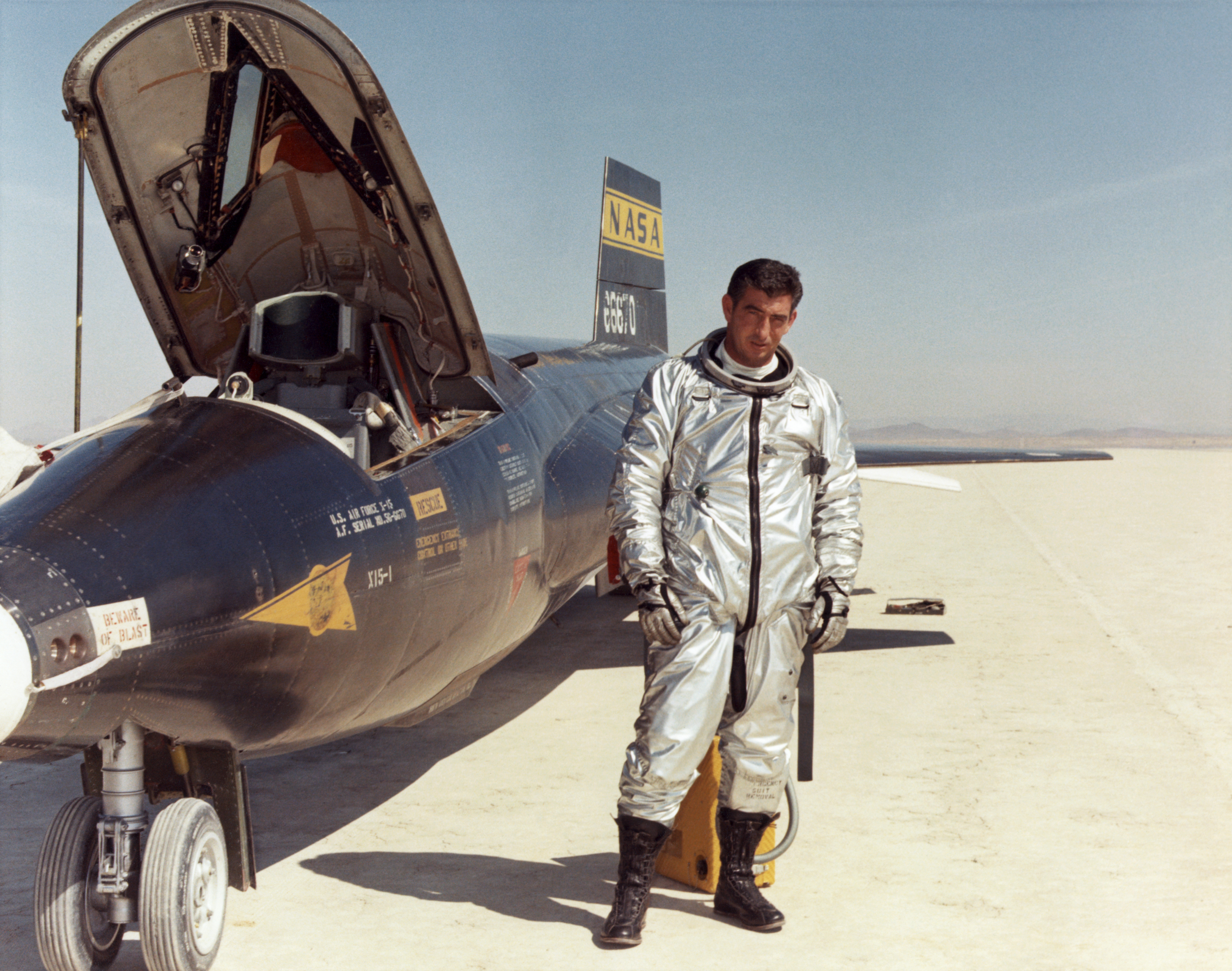 Michael J. Adams with X-15 Photo Number: ECN-1651 Photo Date: March 22, 1967 Air Force test pilot Maj. Michael J. Adams stands beside X-15 ship number one. Adams was selected for the X-15 program in 1966 and made his first flight on Oct. 6, 1966. On Nov. 15, 1967, Adams made his seventh and final X-15 flight. The X-15 launched from the B-52, but during the ascent an electrical problem affected the X-15's control system. The aircraft crashed northwest of Cuddeback Lake, California, causing the death of Adams. He was posthumously awarded Air Force astronaut wings because his final flight exceeded 50 miles in altitude. Adams was the only pilot lost in the 199-flight X-15 program.